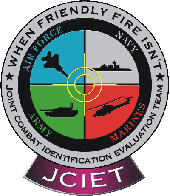 Joint Combat Identification Evaluation Team. 4 quadrants represent the 4 services.